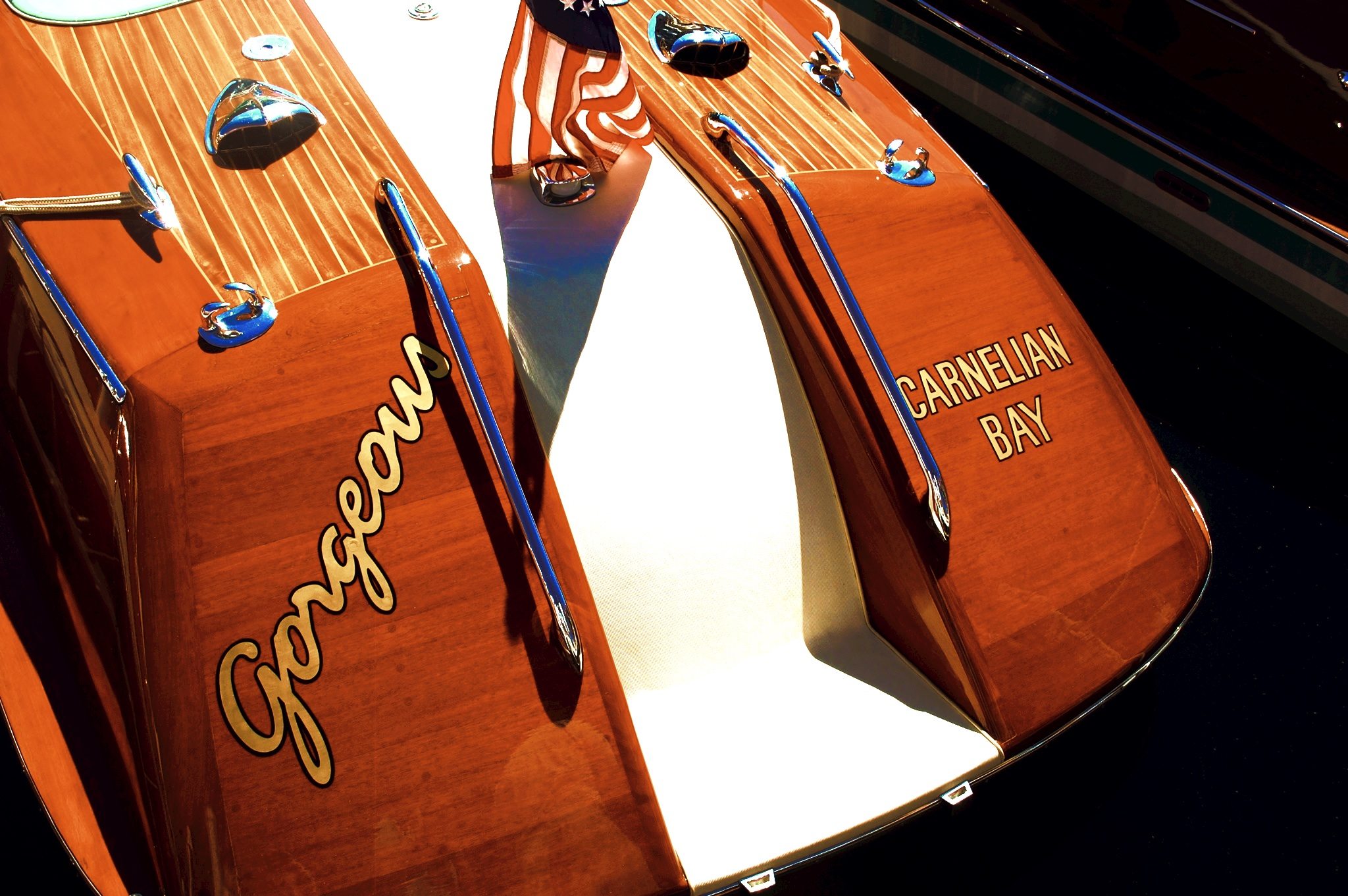 The stern of a Riva Aqaurama Special at the 2012 Lake Tahoe Concours d'Elegance